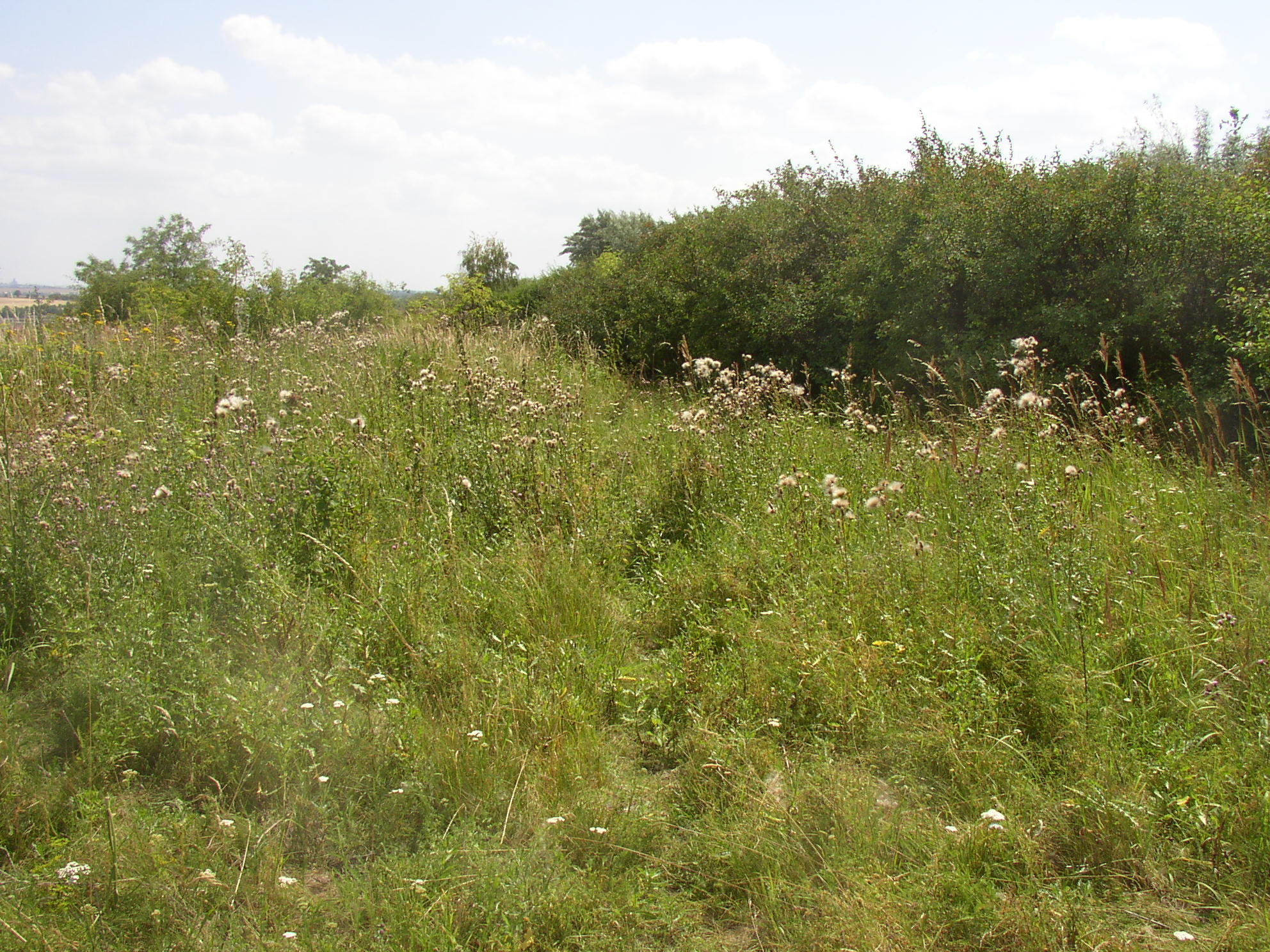 Buštěhrad slag heap, Kladno District, Czech Republic. Vegetation on the top, close to SE corner. An example of naturally occuring succession.